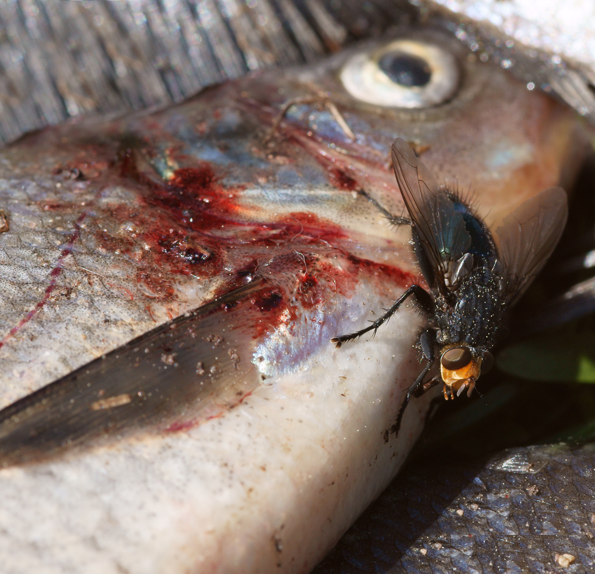 Blue Bottle Fly (Cynomya mortuorum) on bream (Abramis brama).